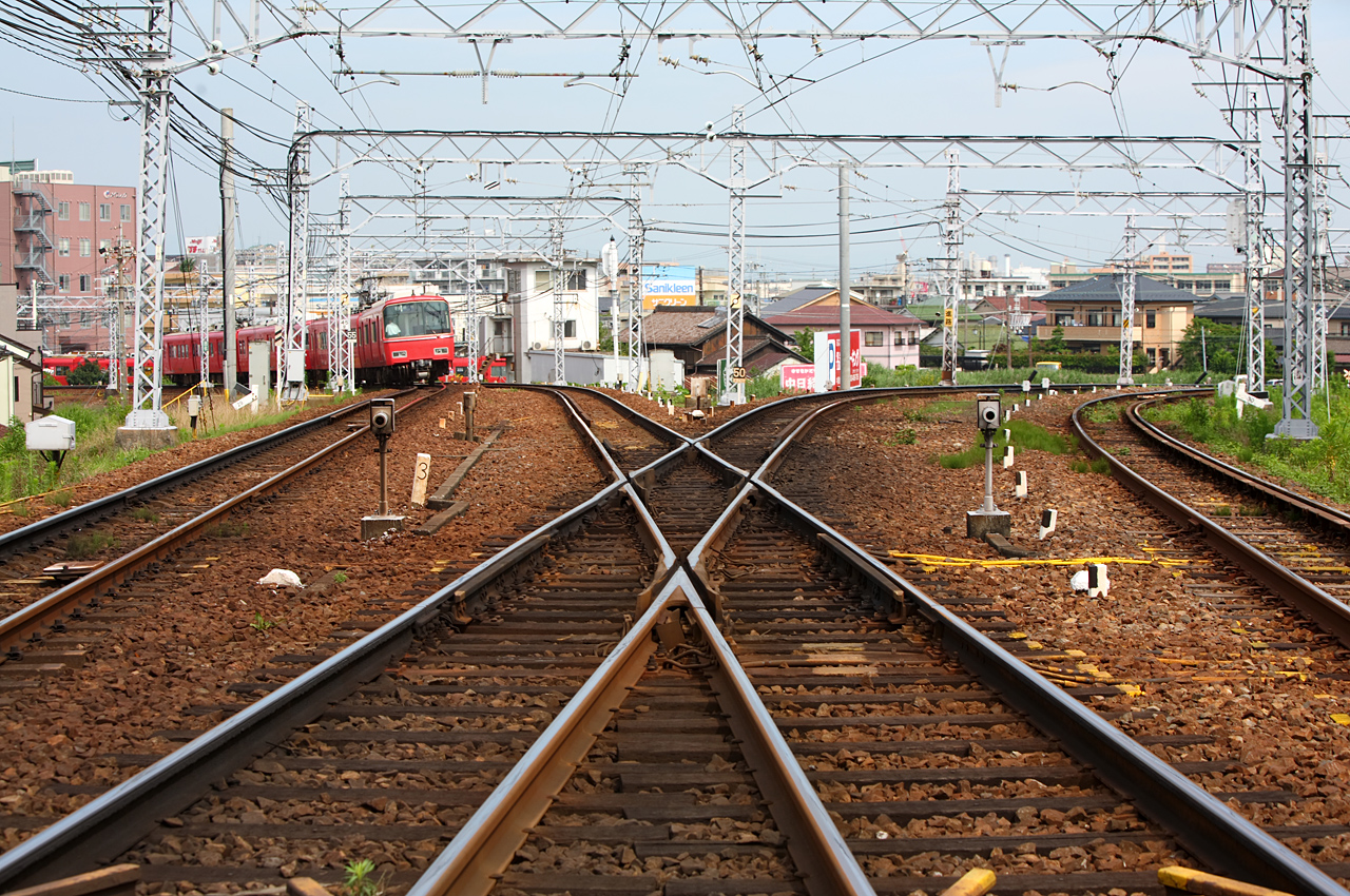 Meitetsu Biwajima Junction.